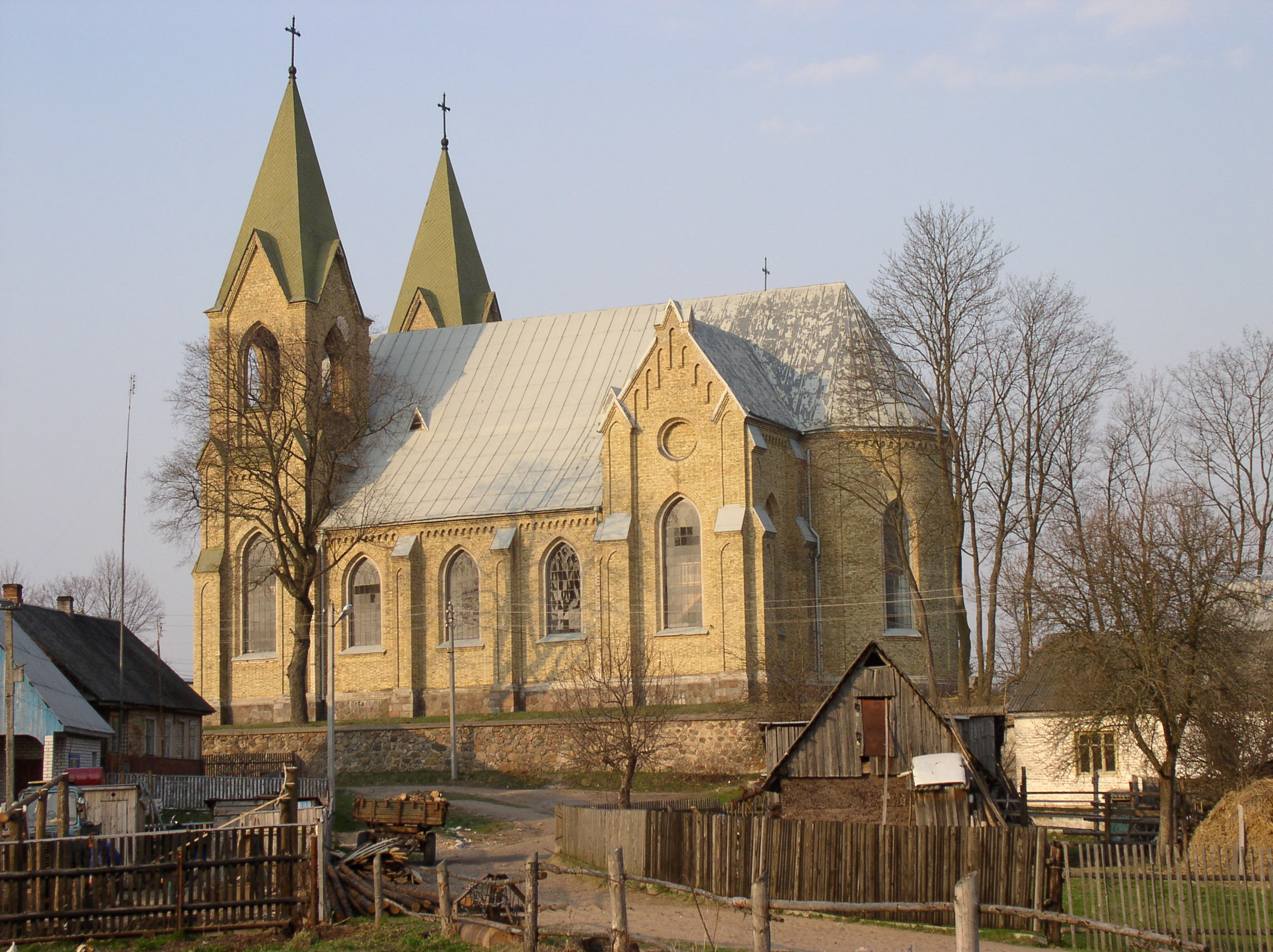 Church of Saint Virgin Mary, Rakaw, Belarus.